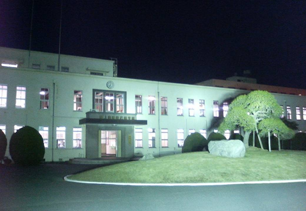 ordnance school,JGSDF